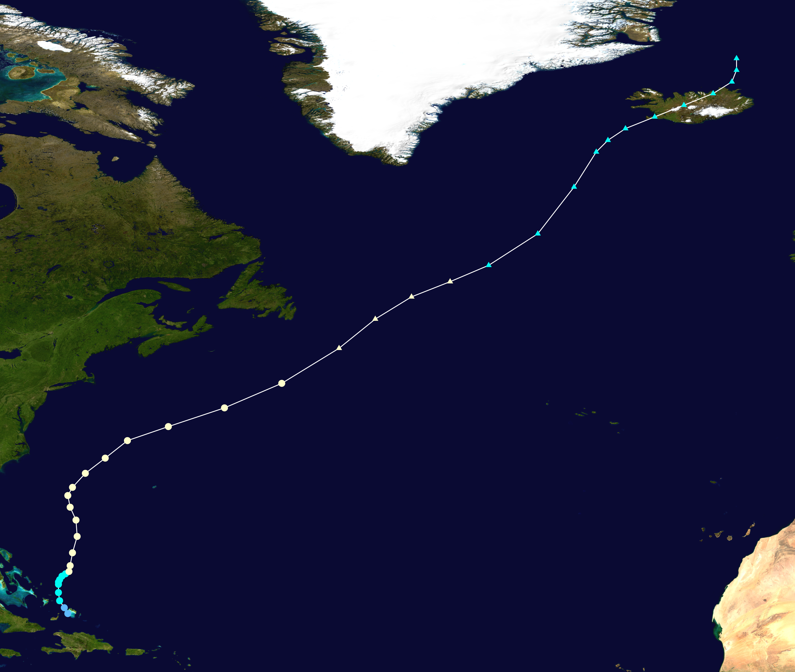 Track map of Hurricane Cristobal of the 2014 Atlantic hurricane season. The points show the location of the storm at 6-hour intervals. The colour represents the storm's maximum sustained wind speeds as classified in the Saffir–Simpson scale (see below), and the shape of the data points represent the nature of the storm, according to the legend below. Saffir–Simpson scale Tropical depression≤38 mph≤62 km/h Category 3111–129 mph178–208 km/h Tropical storm39–73 mph63–118 km/h Category 4130–156 mph209–251 km/h Category 174–95 mph119–153 km/h Category 5≥157 mph≥252 km/h Category 296–110 mph154–177 km/h Unknown Storm type Tropical cyclone Subtropical cyclone Extratropical cyclone / Remnant low / Tropical disturbance / Monsoon depression